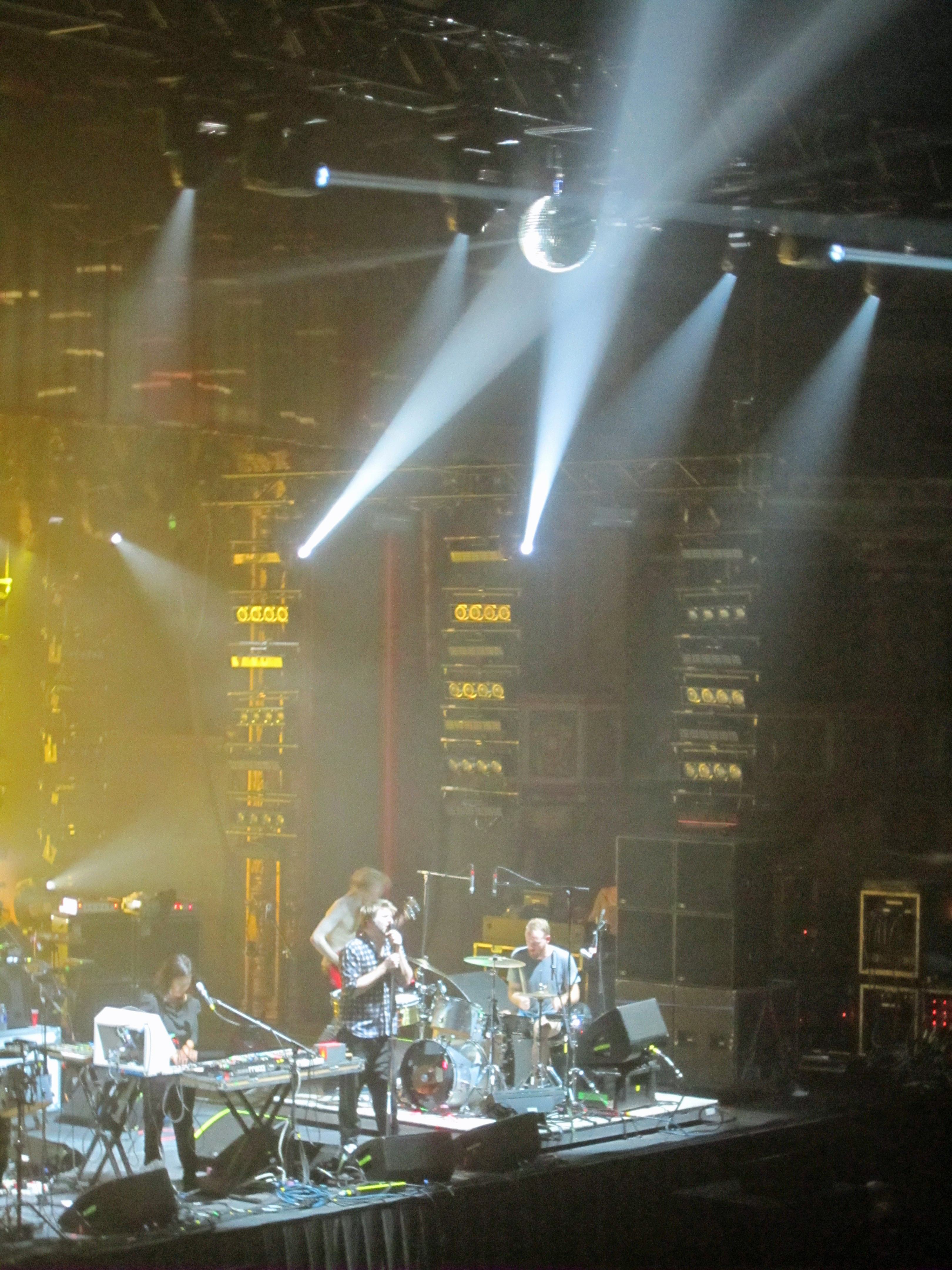 LCD Soundsystem, Chicago, 10/25/2010